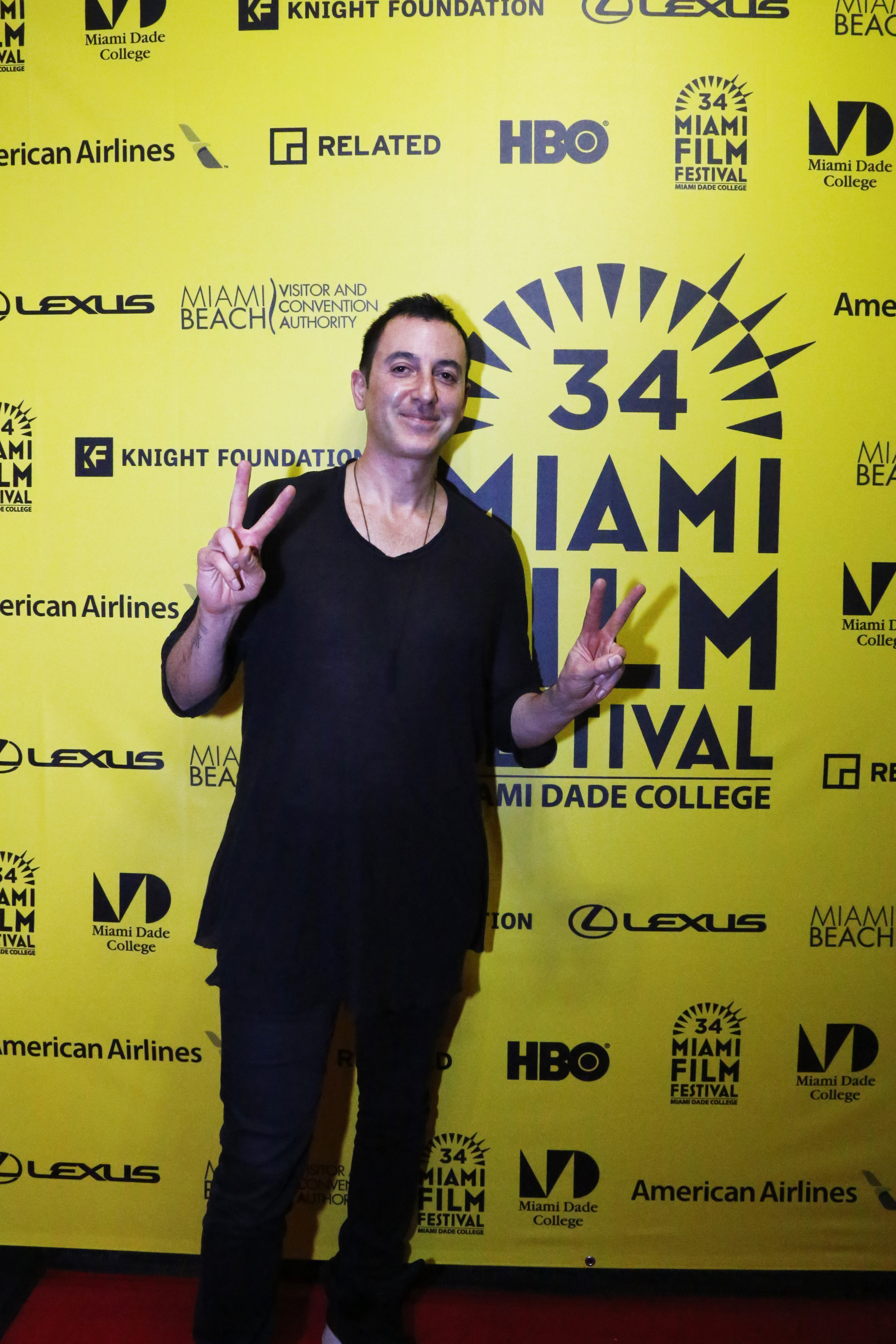 Dubfire at the 2017 Miami International Film Festival presentation of Dubfire, Above Ground Level